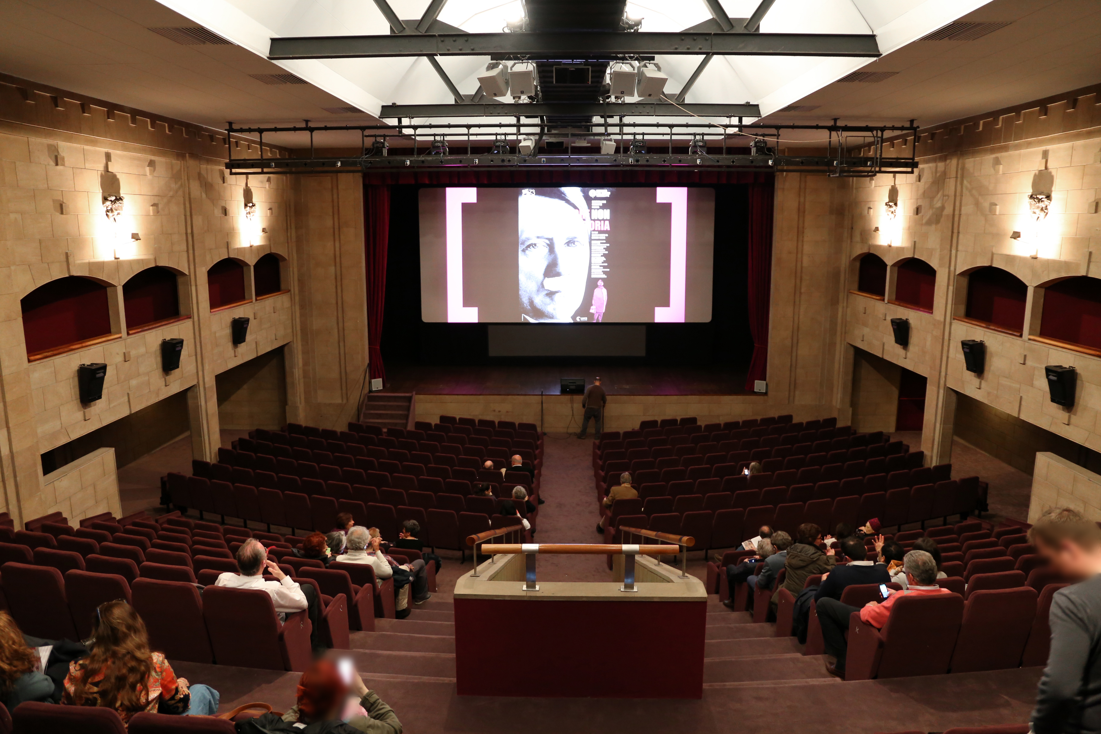 Teatro della Compagnia